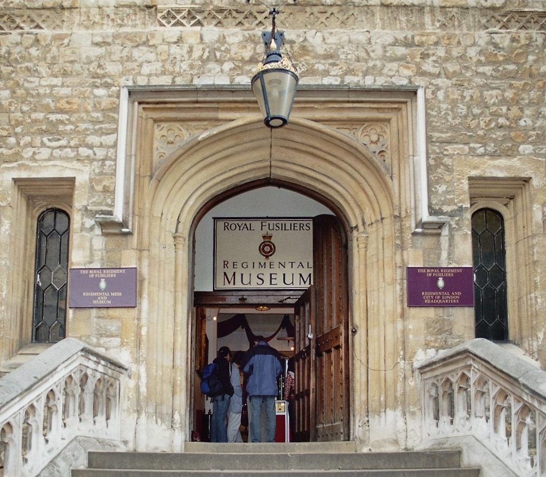 UK, Tower of London: The Royal Regiment of Fusiliers, Regimental and City of London Headquarters, Mess and Museum